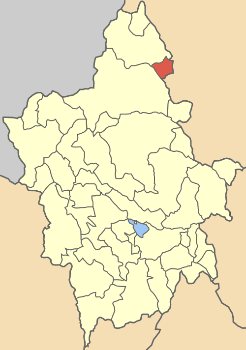 Position of Fourka Community (Κοινότητα Φούρκας) in Ioannina prefecture (Νομός Ιωαννίνων), Greece